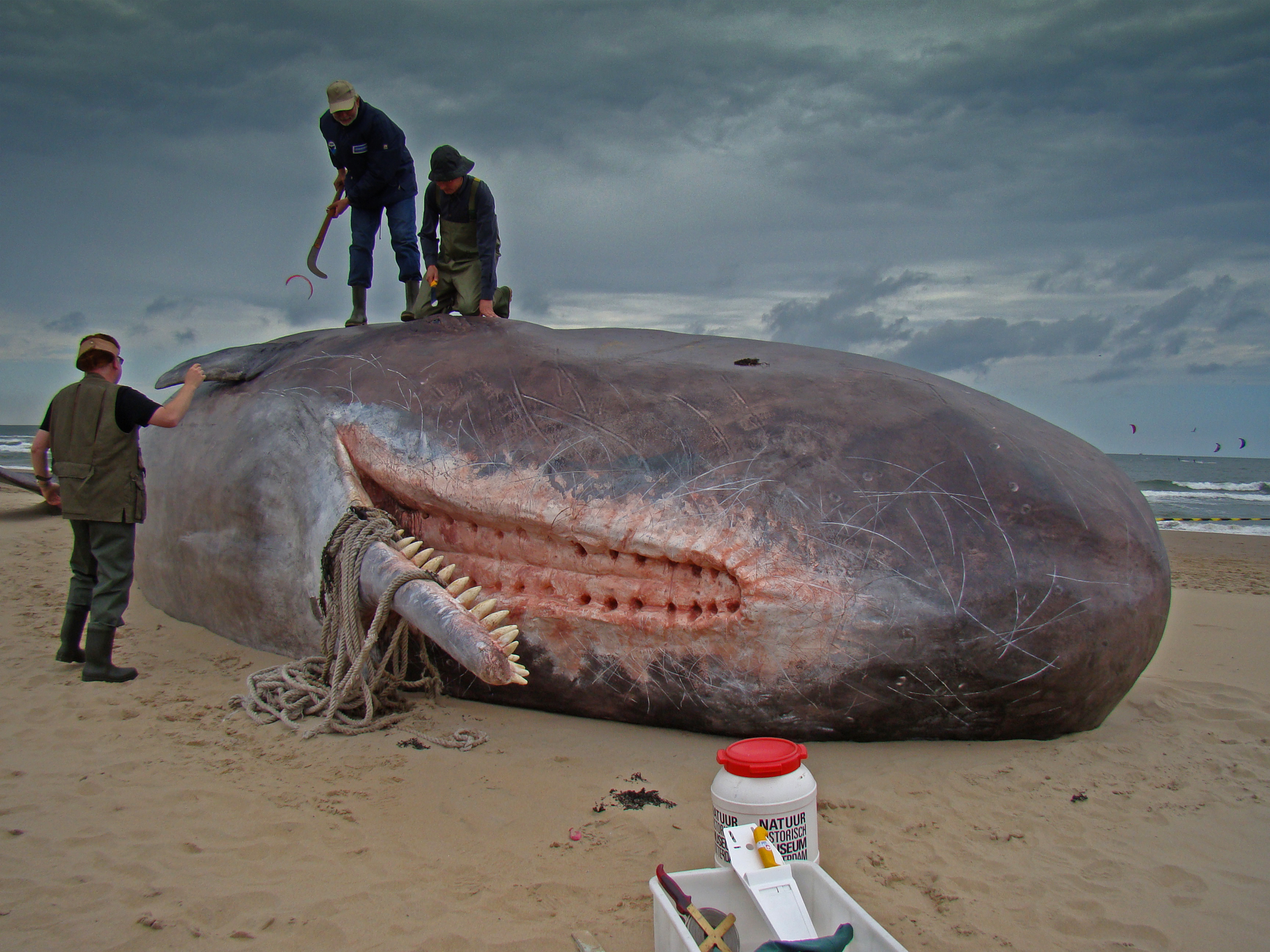 An art work of Dirk Claesen shot at Scheveningen beach (The Netherlands), artificial sperm whale